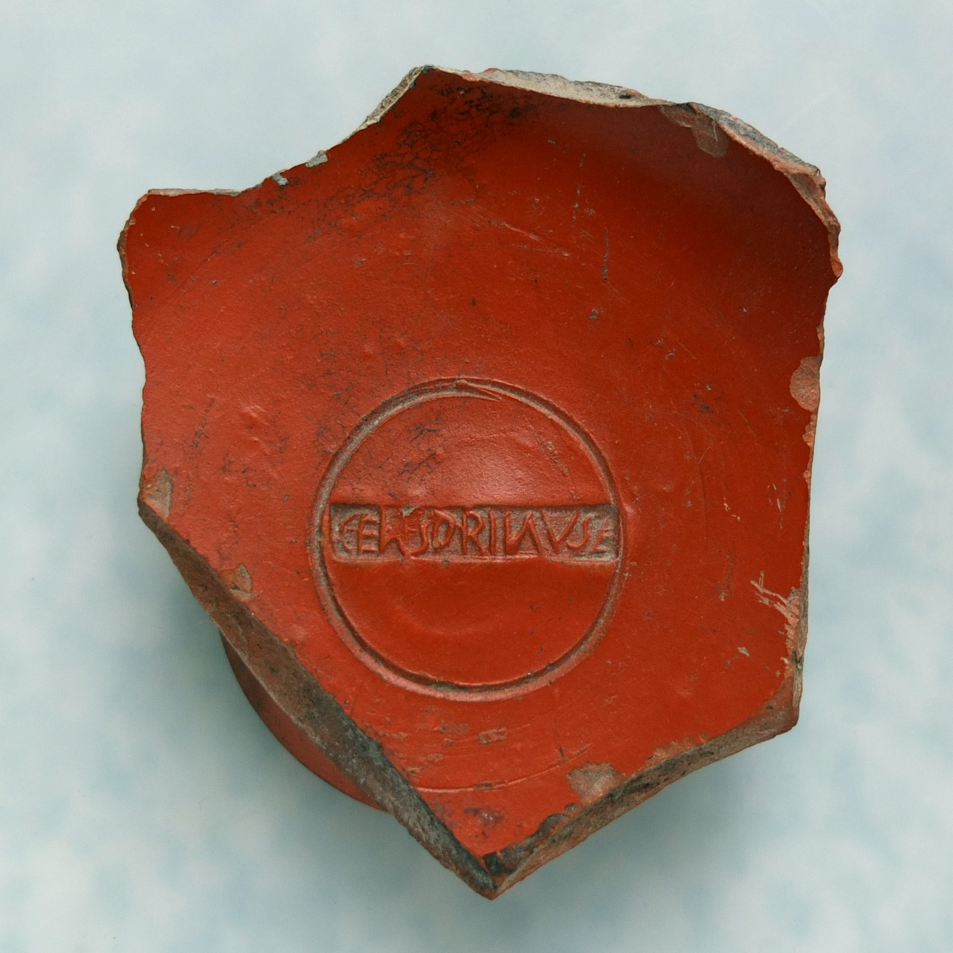 Fragment einer Terra-Sigillata-Schale aus der Werkstatt des CENSORINUS, 2. Jh. n. Chr.